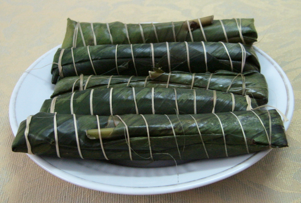 Bánh tẻ (made in Mỹ Đức, Hà Tây province, Việt Nam) with leaf wrappers (Phrynium placentarium leaf).